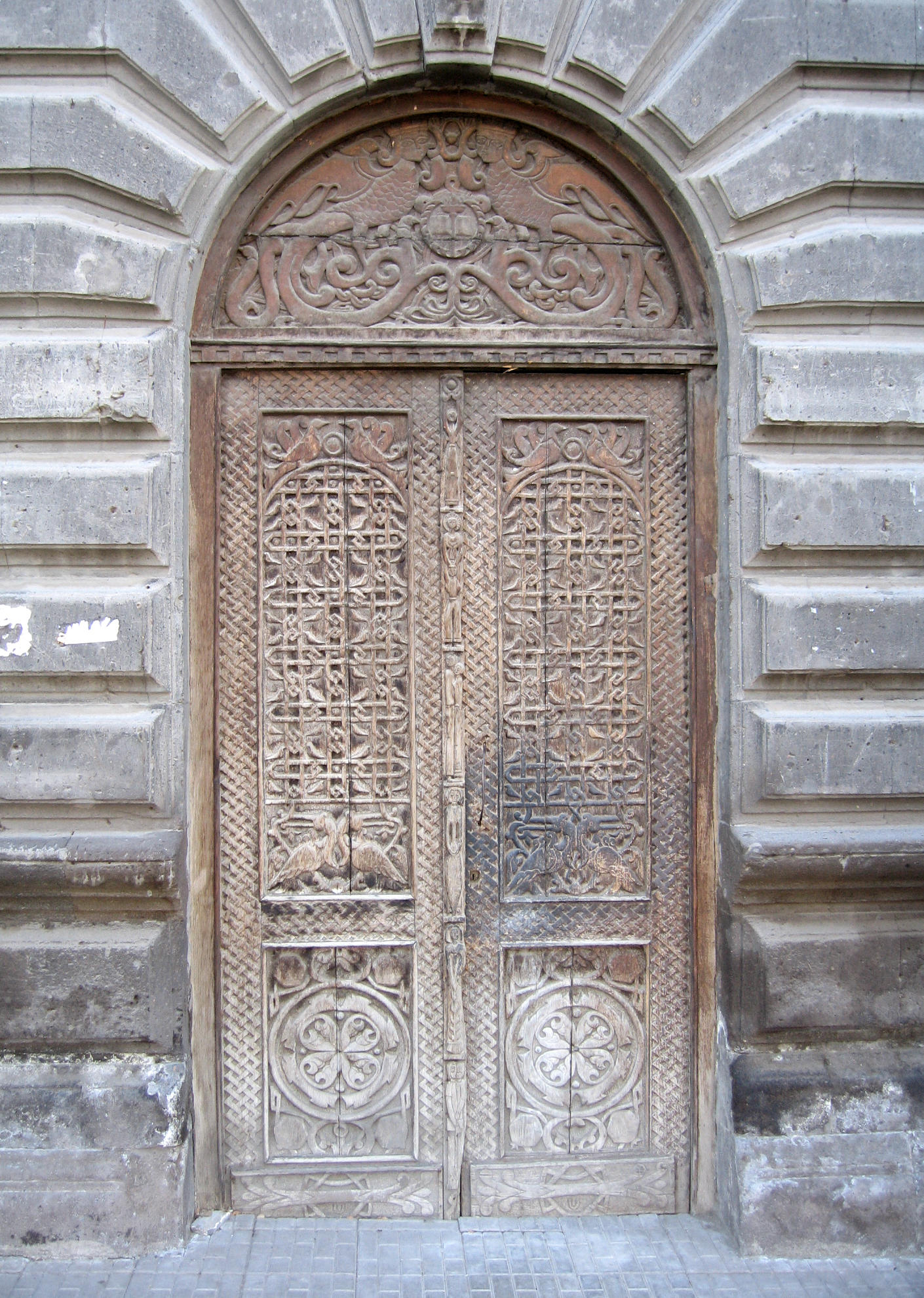 Wooden door in Yerevan, Armenia